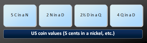 Only Connect Round 2